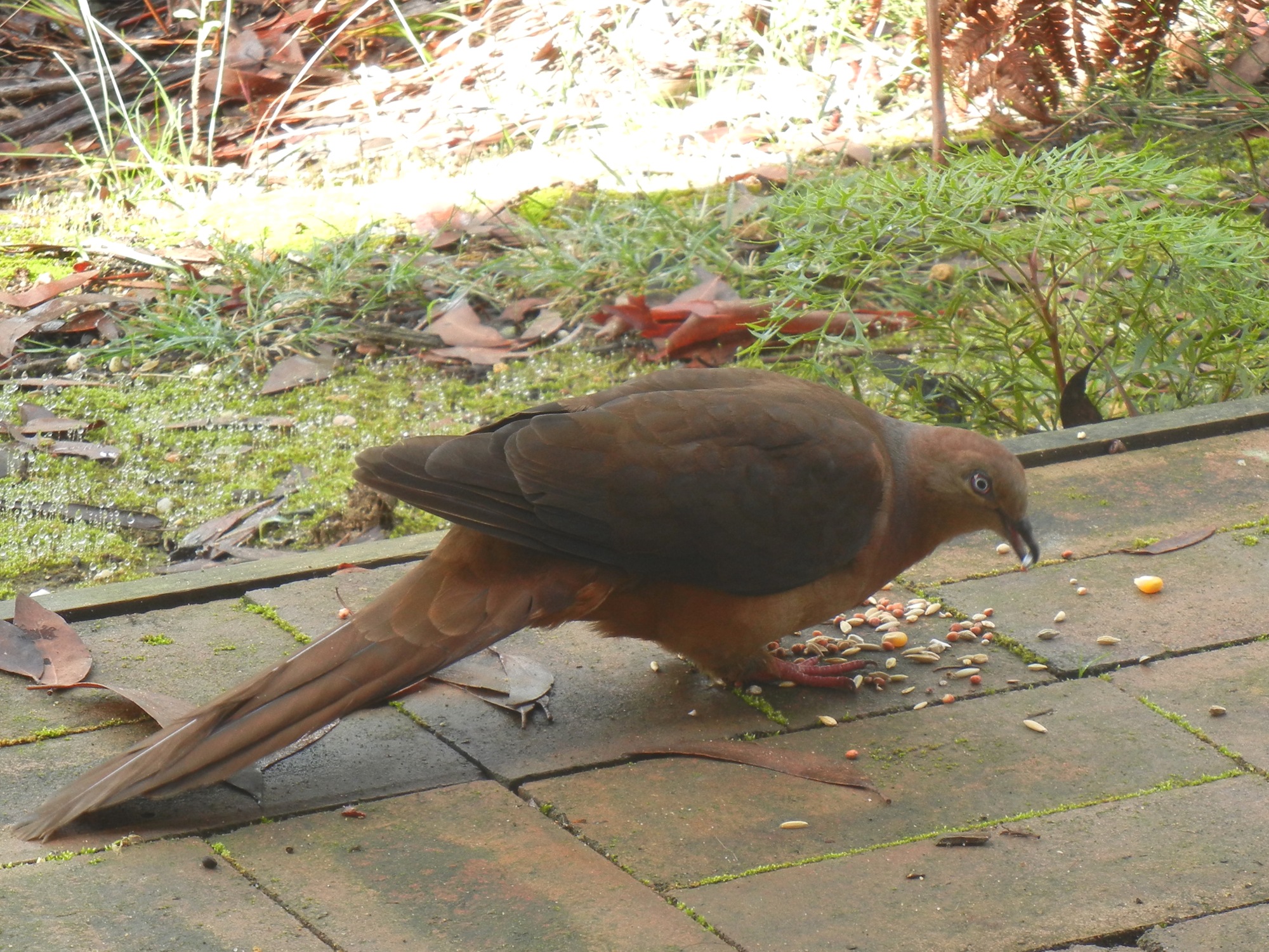 A Slender-billed Cuckoo-Dove near Wentworth Falls, New South Wales, Australia.